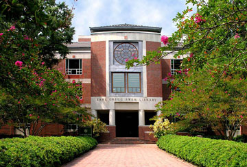 Photograph by Karen McCluney, library staff photographer